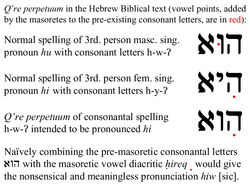 Graphic illustrating article Q're perpetuum (now merged as part of "Qere and Ketiv"). Resizable (zoomable) vector PDF version of this diagram available on request.